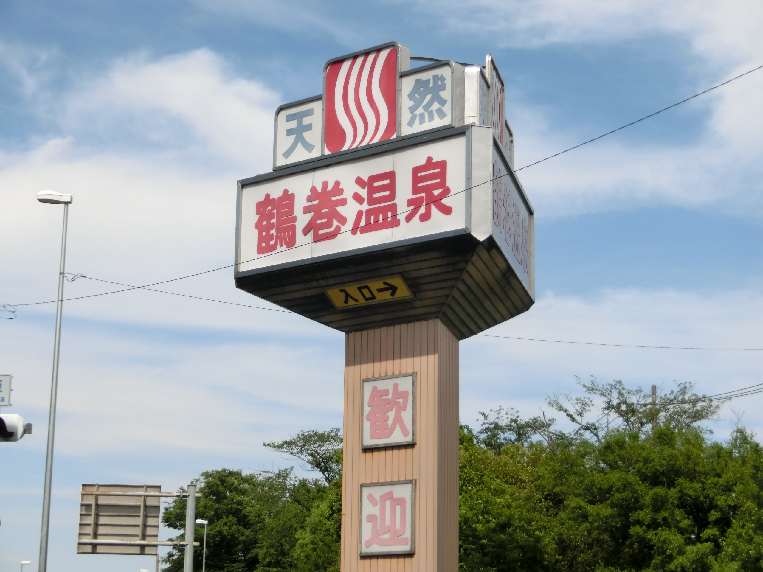 Entrance to Tsurumaki Onsen